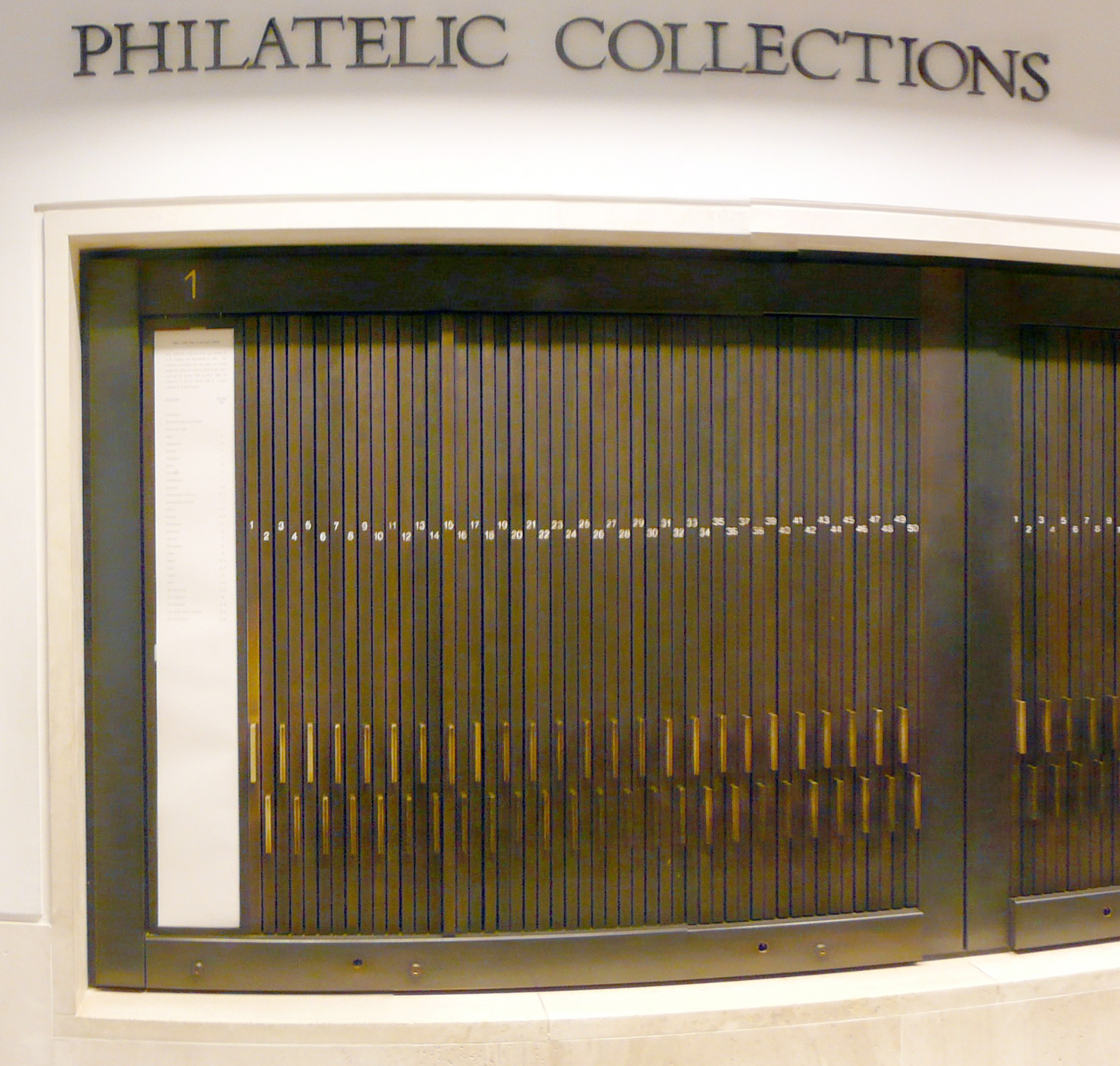 Philatelic collections, British National Library, London